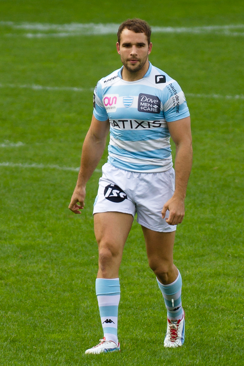 Top 14 — 1 November 2012, Stade Ernest-Wallon. Match between: Stade toulousain — Racing Métro 92 Olly Barkley